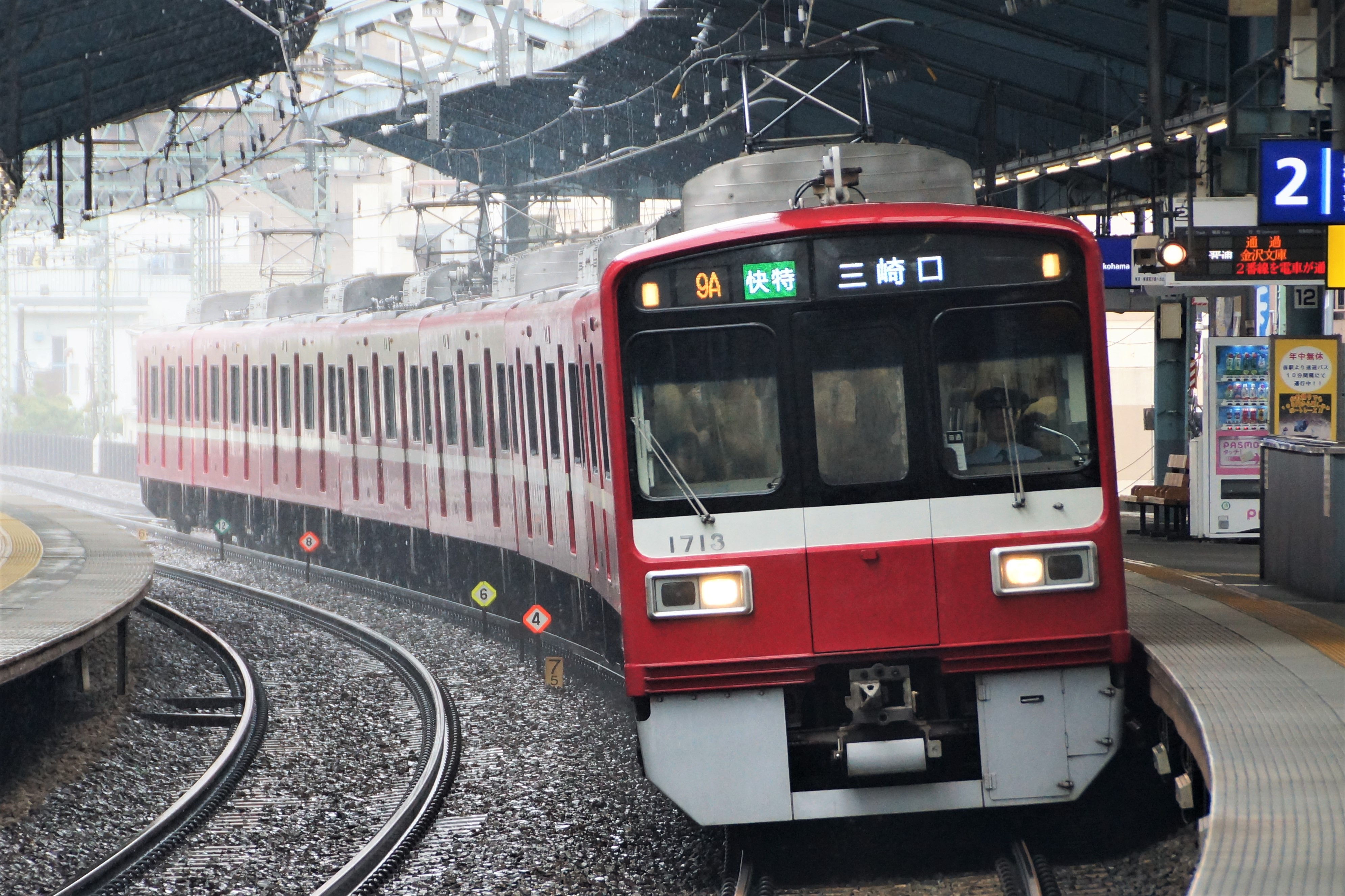 Keikyu 1500 series EMU set 1713 passing through Heiwajima Station on the Keikyu Main Line in Ota, Tokyo, Japan